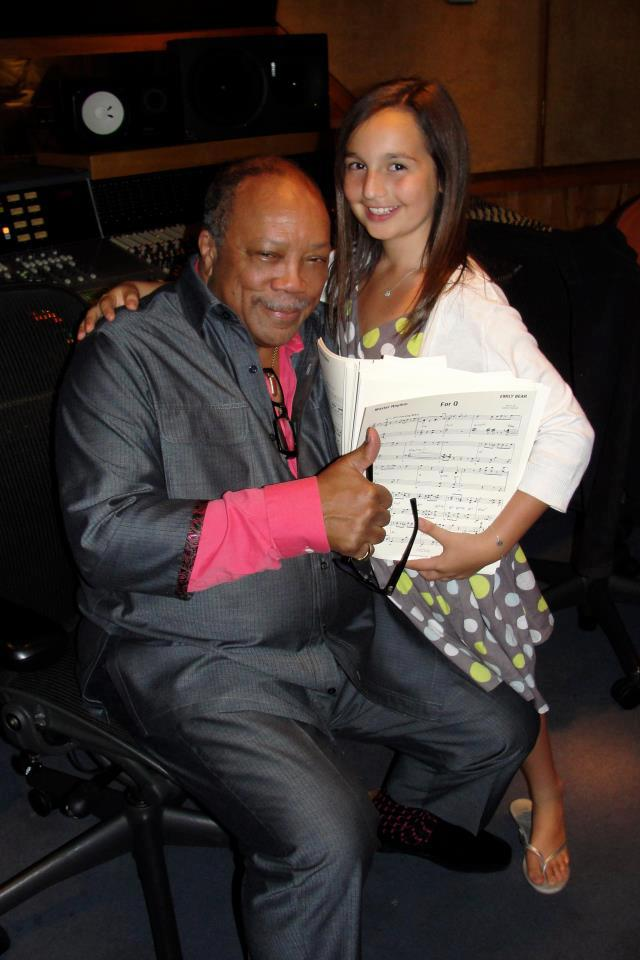 Bear (age 10) with her mentor, Quincy Jones, at a recording session for her album "Diversity", Westlake Recording Studios in LA, June 2012